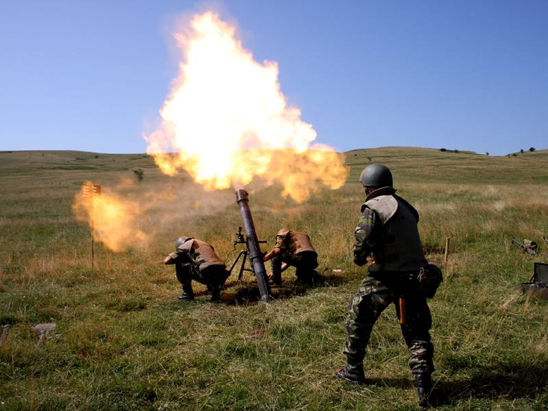 Romanian soldiers firing a 120 mm mortar during Getica 2008 military exercise. (Bogata - Turda firing range)